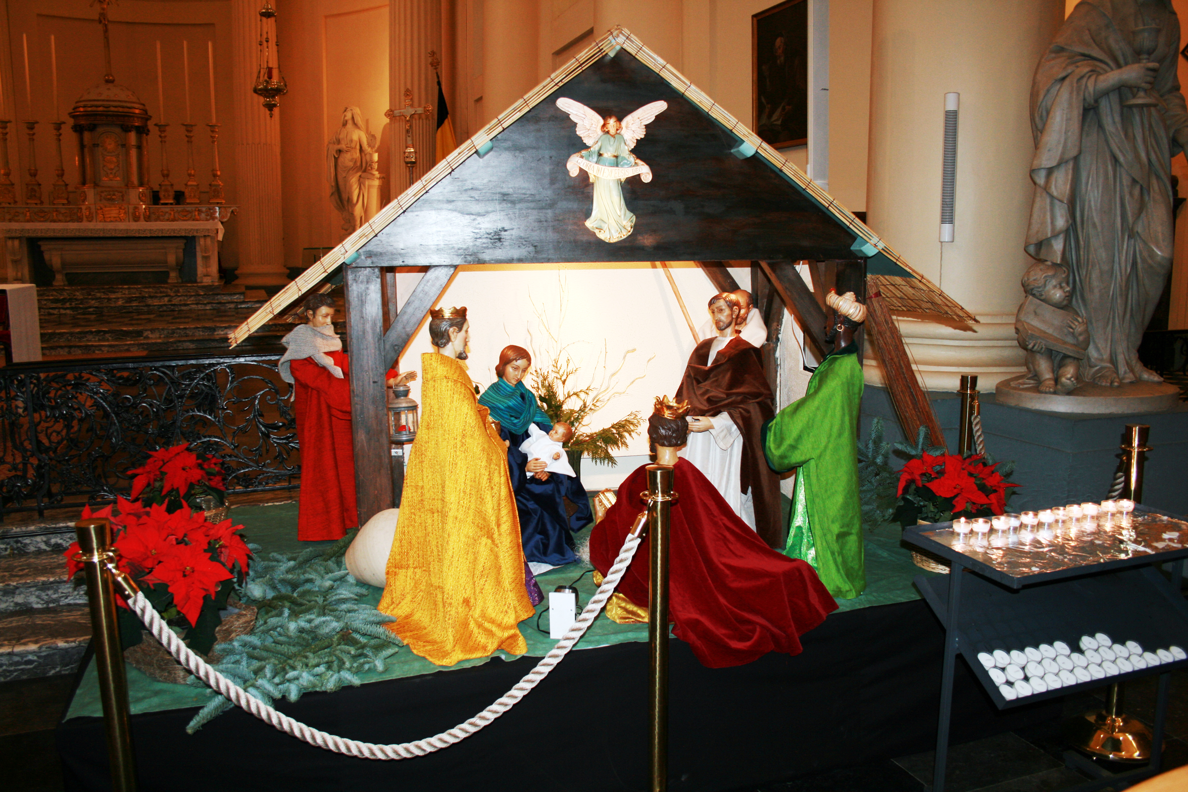 Interior of church Church of Saint Jacques-sur-Coudenberg in Brussels, Belgium